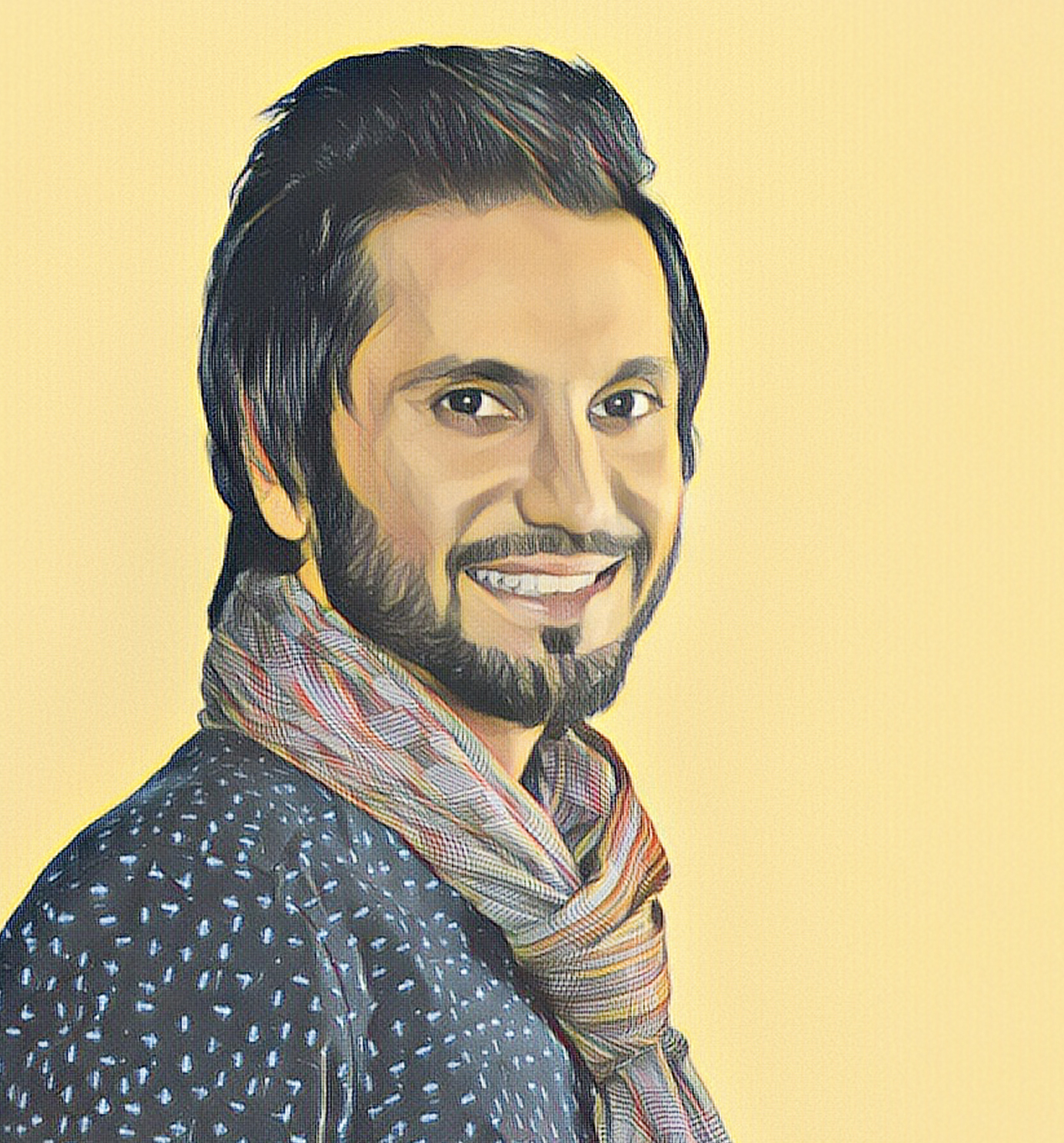 صورة الإعلامي البحريني بدر محمد